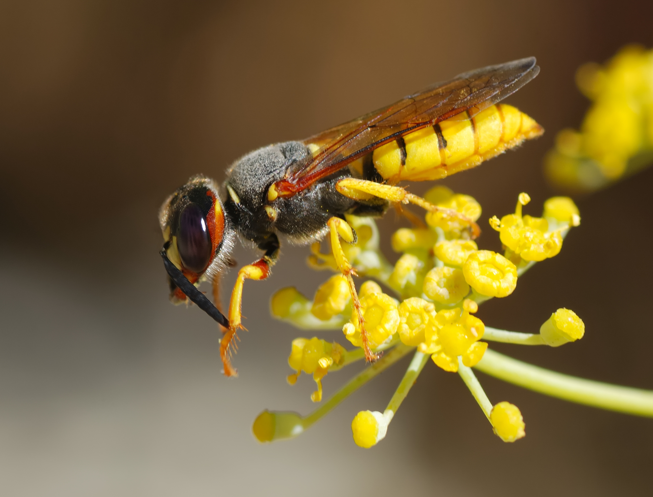 European beewolf (Philanthus triangulum), a solitary wasp.